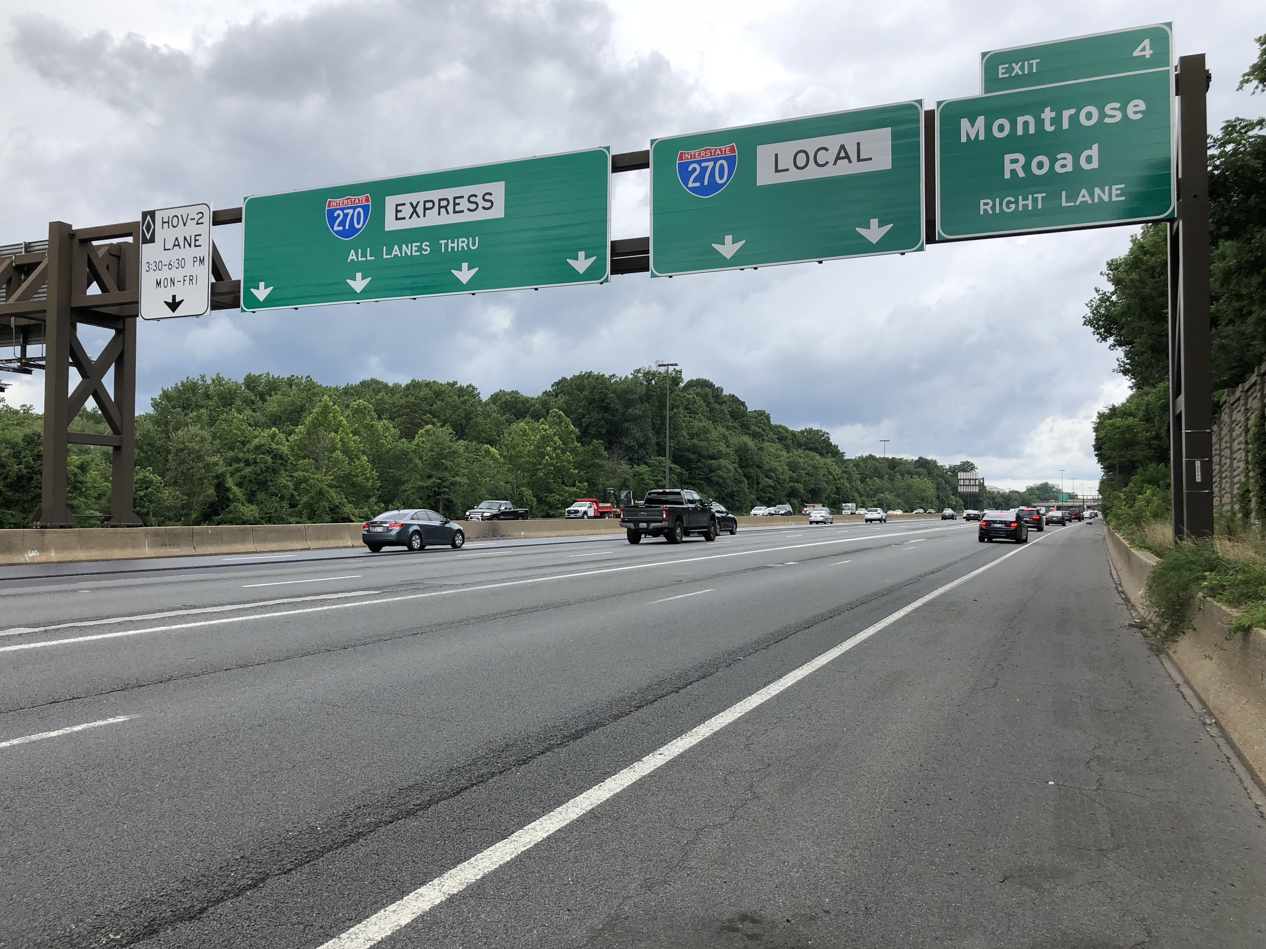 View north along Interstate 270 (Washington National Pike) at the split between the Express Lanes and the Local Lanes on the edge of North Betheda and Potomac in Montgomery County, Maryland